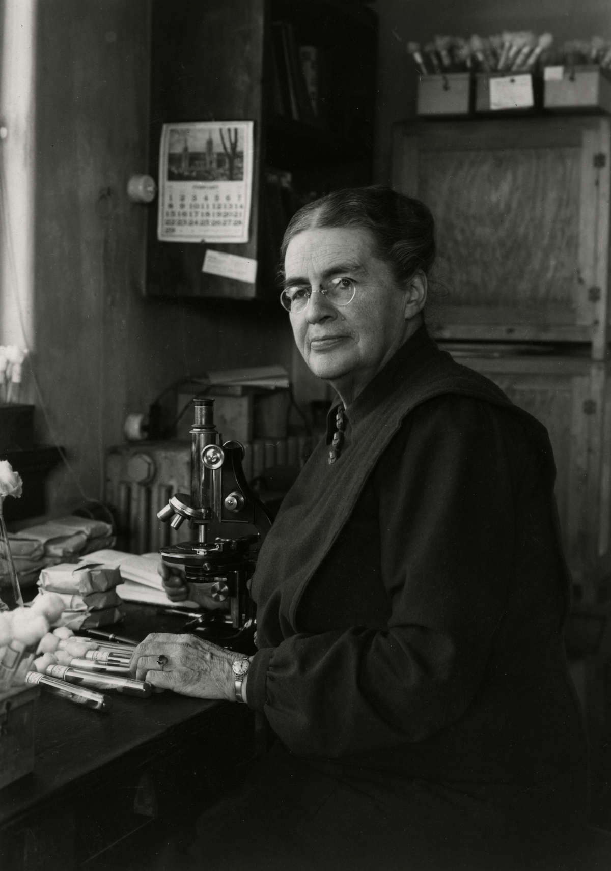 Dutch scientist Johanna Westerdijk at the microscope with glass culture tubes.